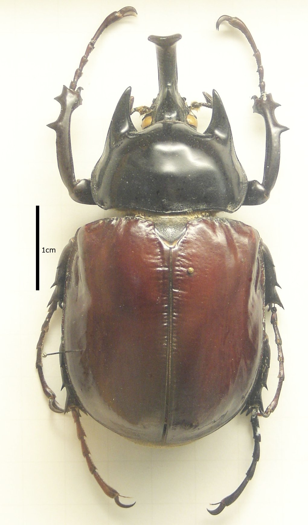 Megasoma janus (Scarabaeidae), mounted specimen from Brazil.